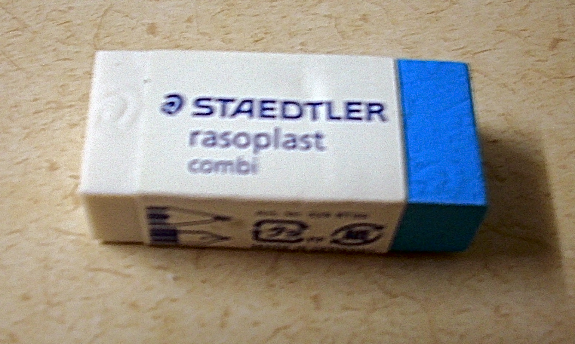 An eraser with right-half can erase ink and left-half can erase pencil